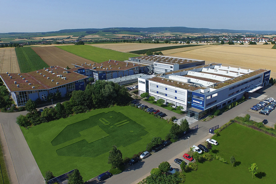 Aerial view of SCHUNK's factory in Brackenheim-Hausen consisting of the large halls 1-4 and the smaller storage building.